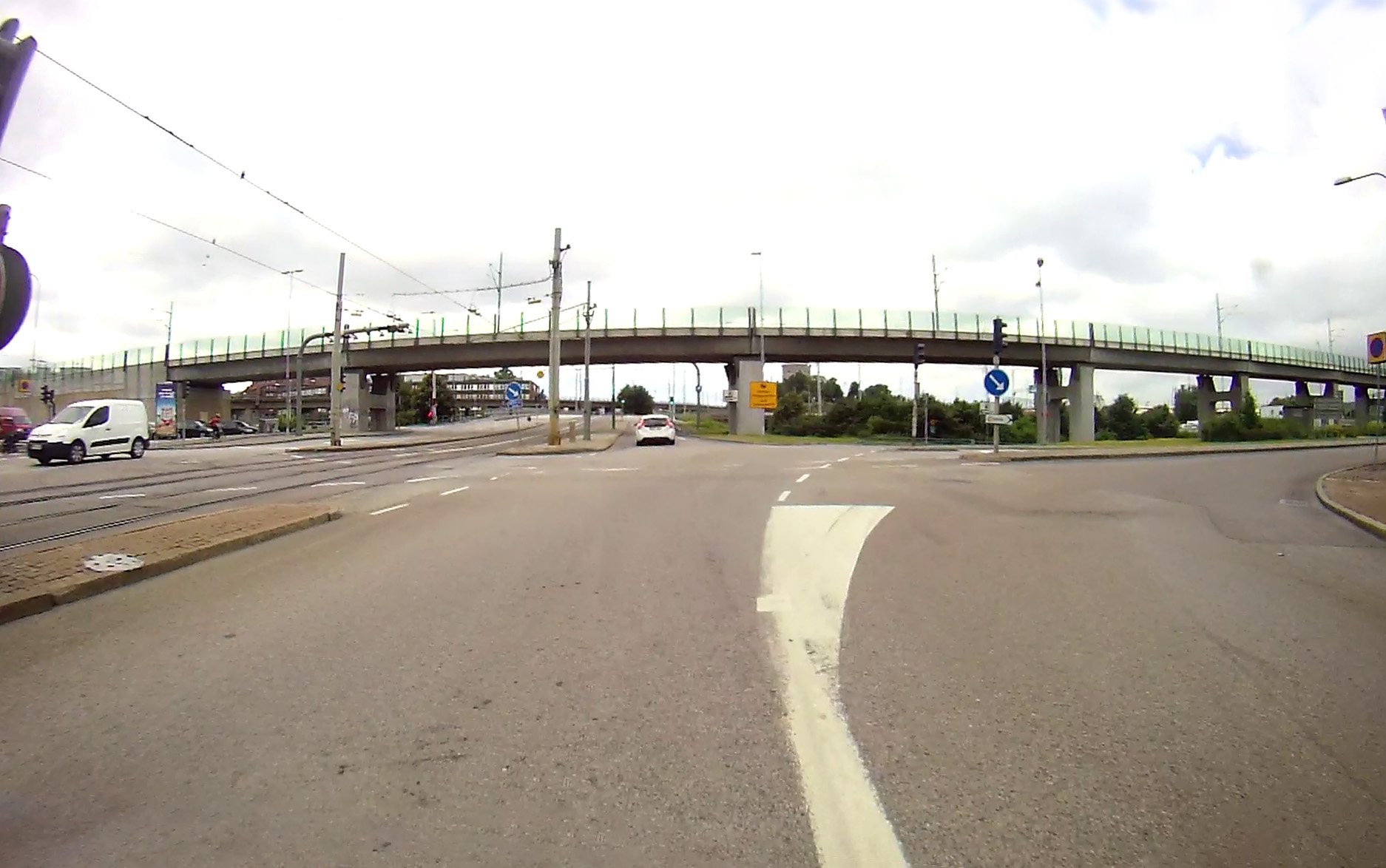 Bridge for freight trains in Gothenburg, seen from Redbergsvägen/Olskroken.